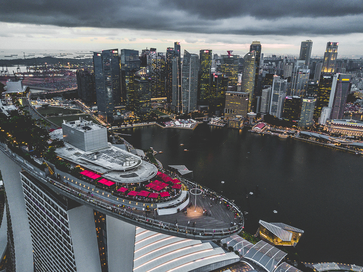 500px provided description: Marina Bay Sands [#sky ,#city ,#sunset ,#river ,#travel ,#tourism ,#urban ,#architecture ,#roof ,#cityscape ,#road ,#traffic ,#building ,#beautiful ,#aerial ,#evening ,#singapore ,#sight ,#town ,#panorama ,#skyline ,#skyscraper ,#modern ,#panoramic ,#outdoors ,#waterfront ,#horizontal ,#business ,#no person]